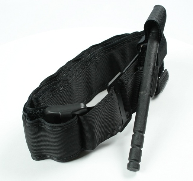 Combat Application Tourniquet (CAT)